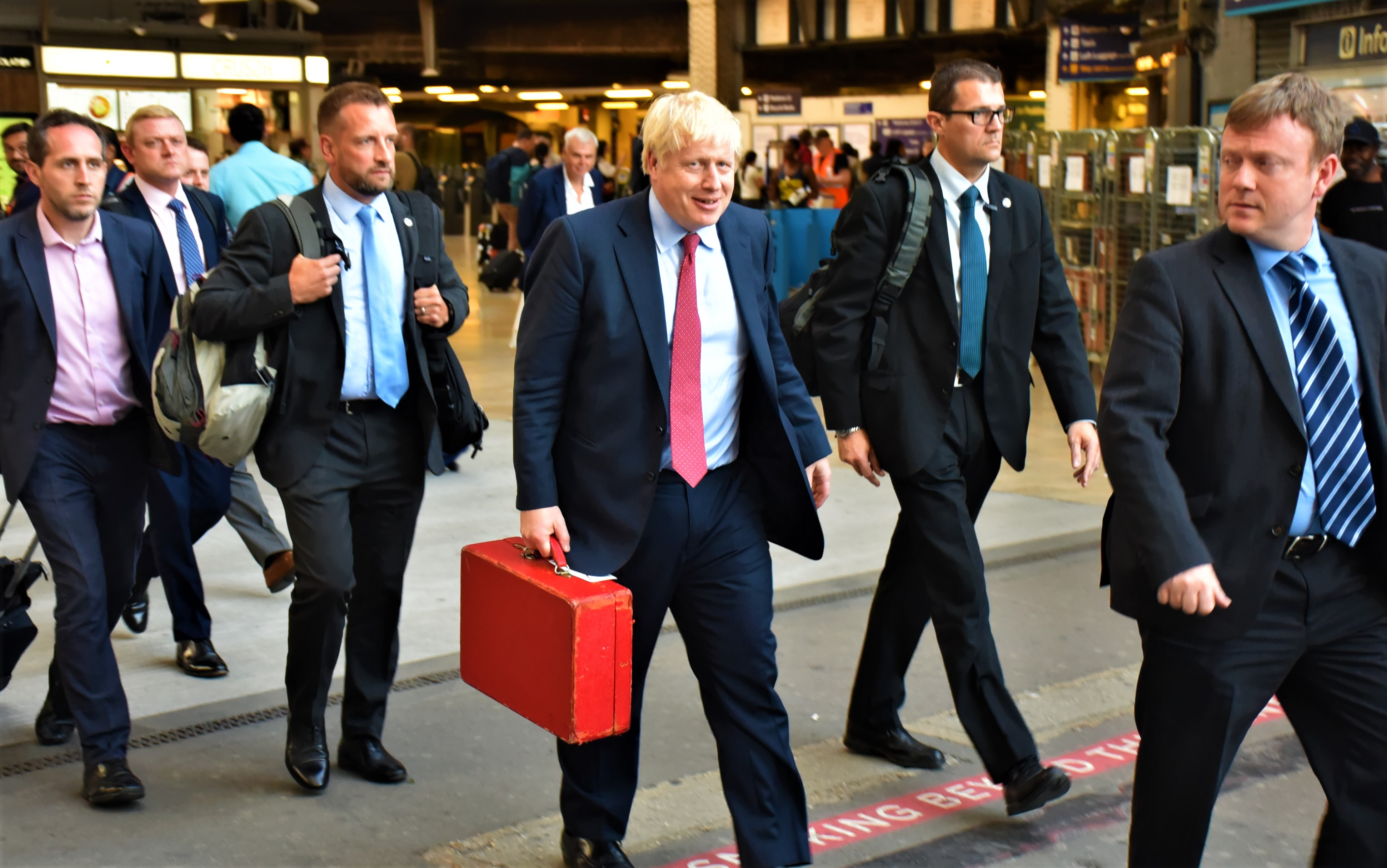 Boris Johnson, Prime Minister of the United Kingdom